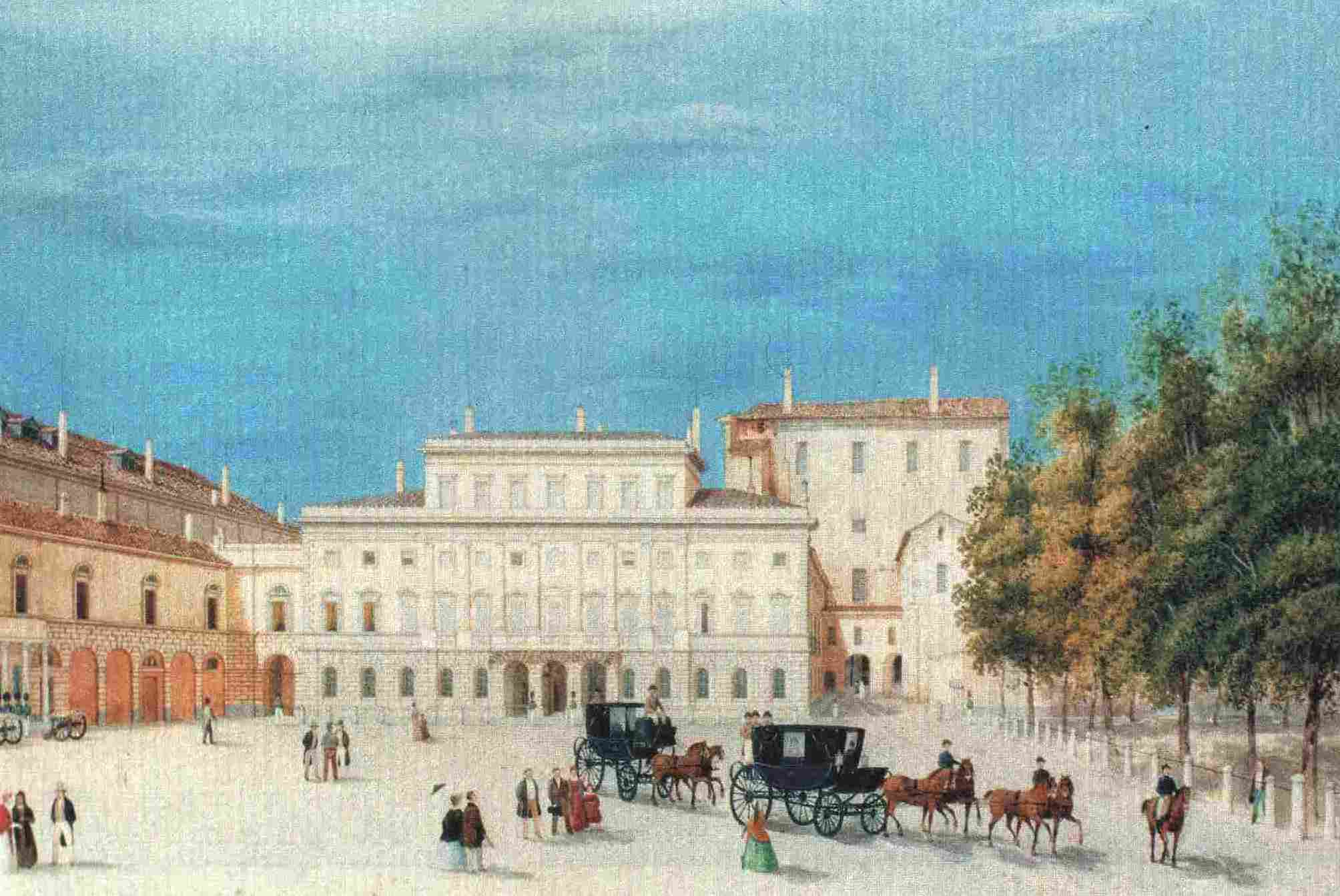 Veduta del Palazzo Ducale e della Pilotta, painting by Giuseppe Alinovi.